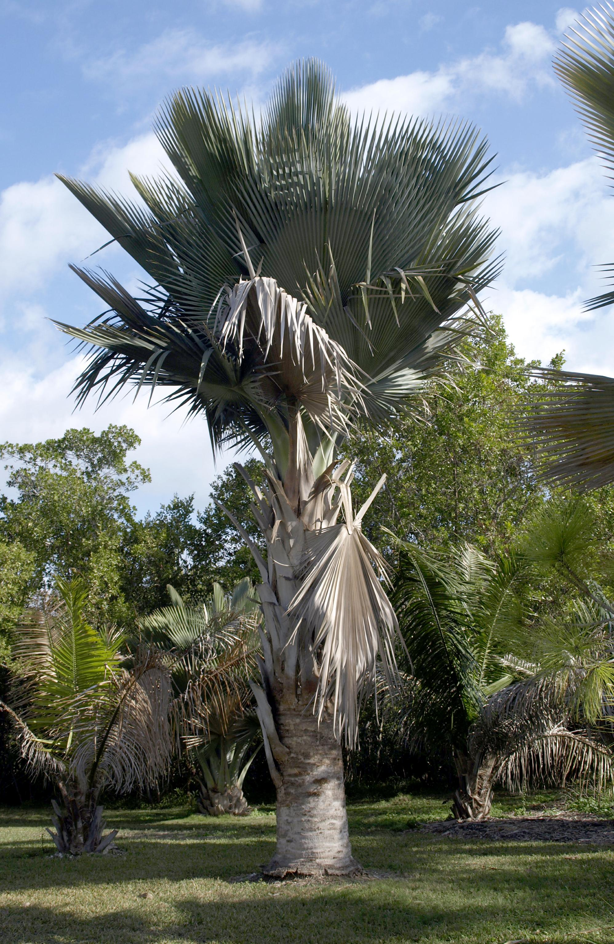 Copernicia fallaensis, Fairchild Tropical Botanic Garden, Miami, Florida, USA.